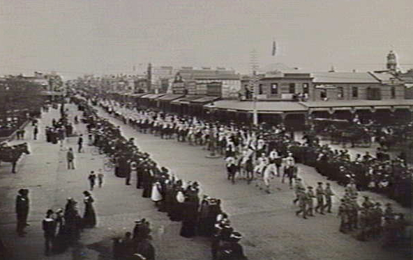 The first Gala Day procession showing Moorabool Street, Geelong